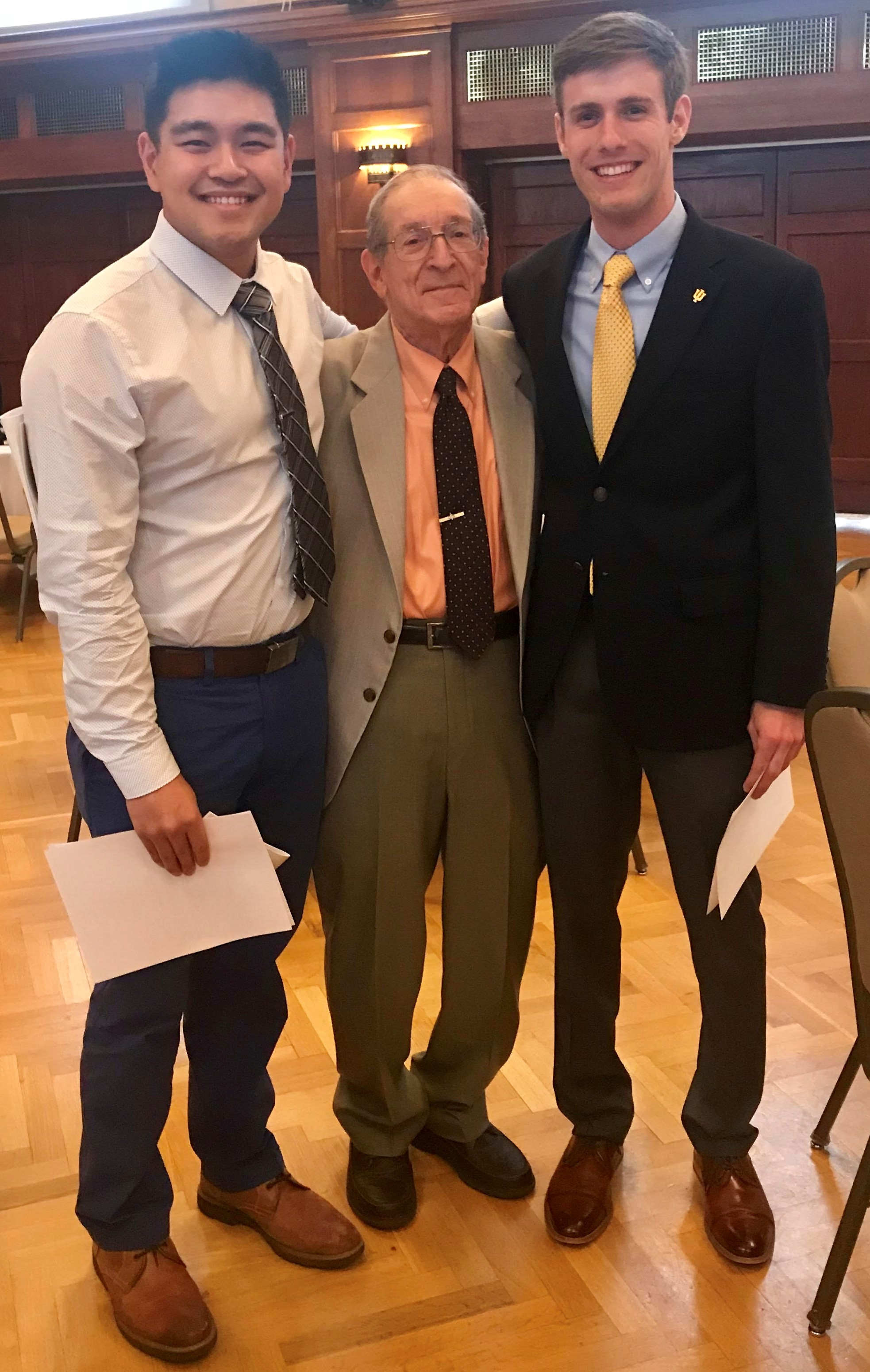 Picture of Dr. Dennis G. Peters with two undergraduate students at an awards banquet in April 2018.